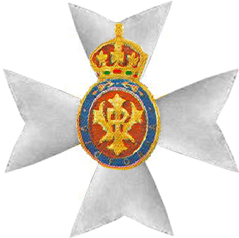 Star of a Member of the Royal Victorian Order